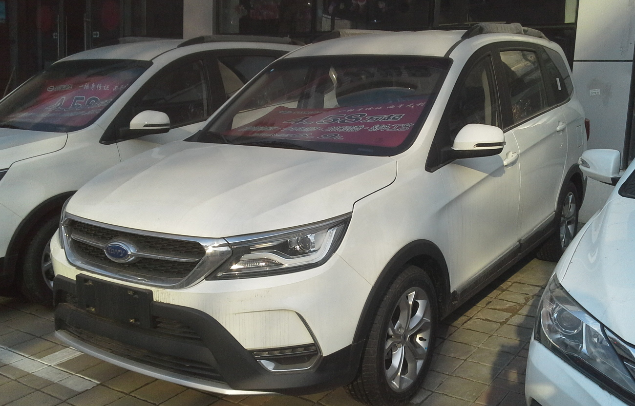 Karry K60 photographed in Changchun, Jilin province, China.